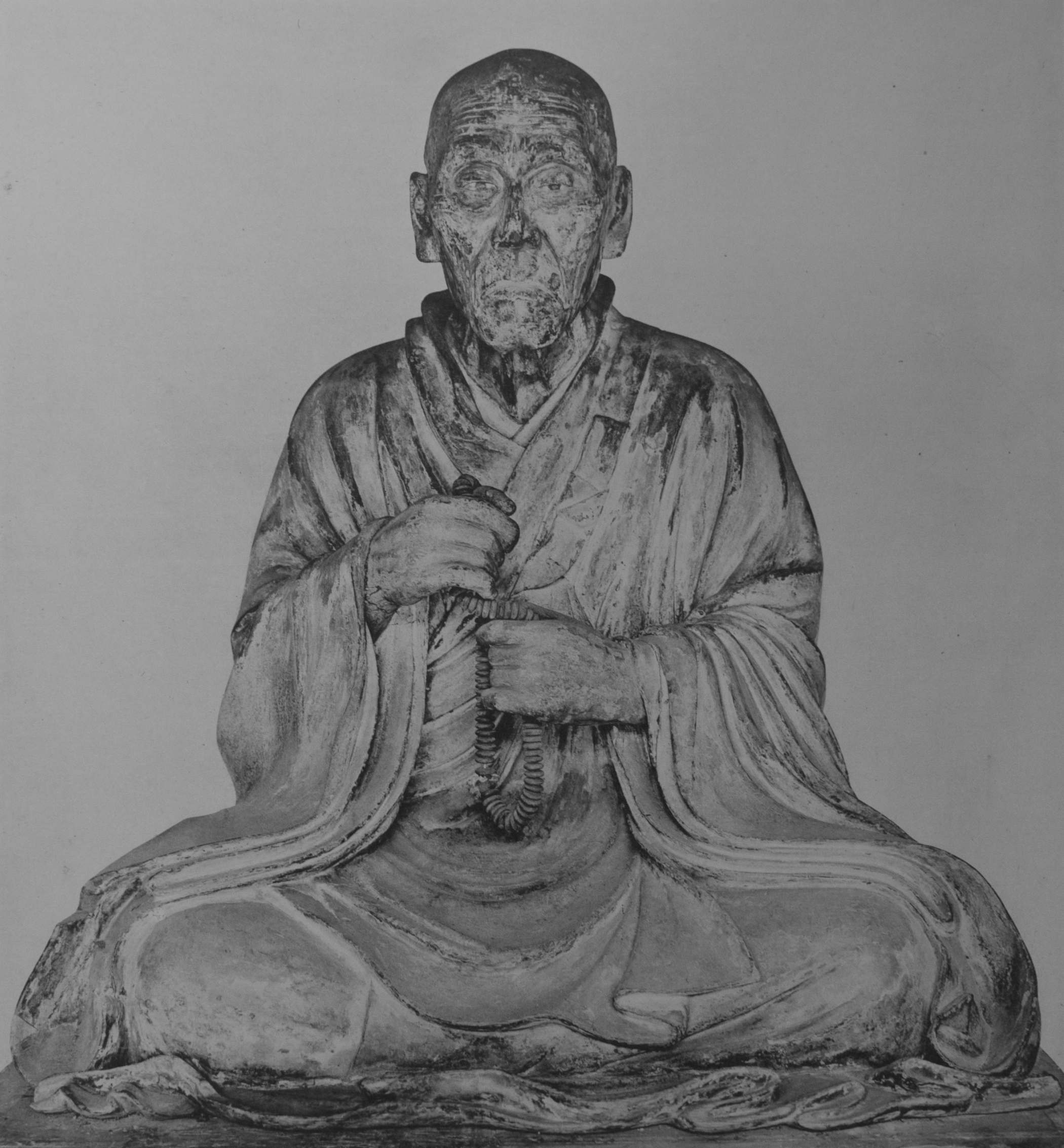 Sitting Statue of Chōgen (monk) at Todaiji, Nara, Japan